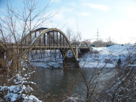 Creamery Bridge, a Marsh Arch triple span bridge in Osawatomie, Kansas